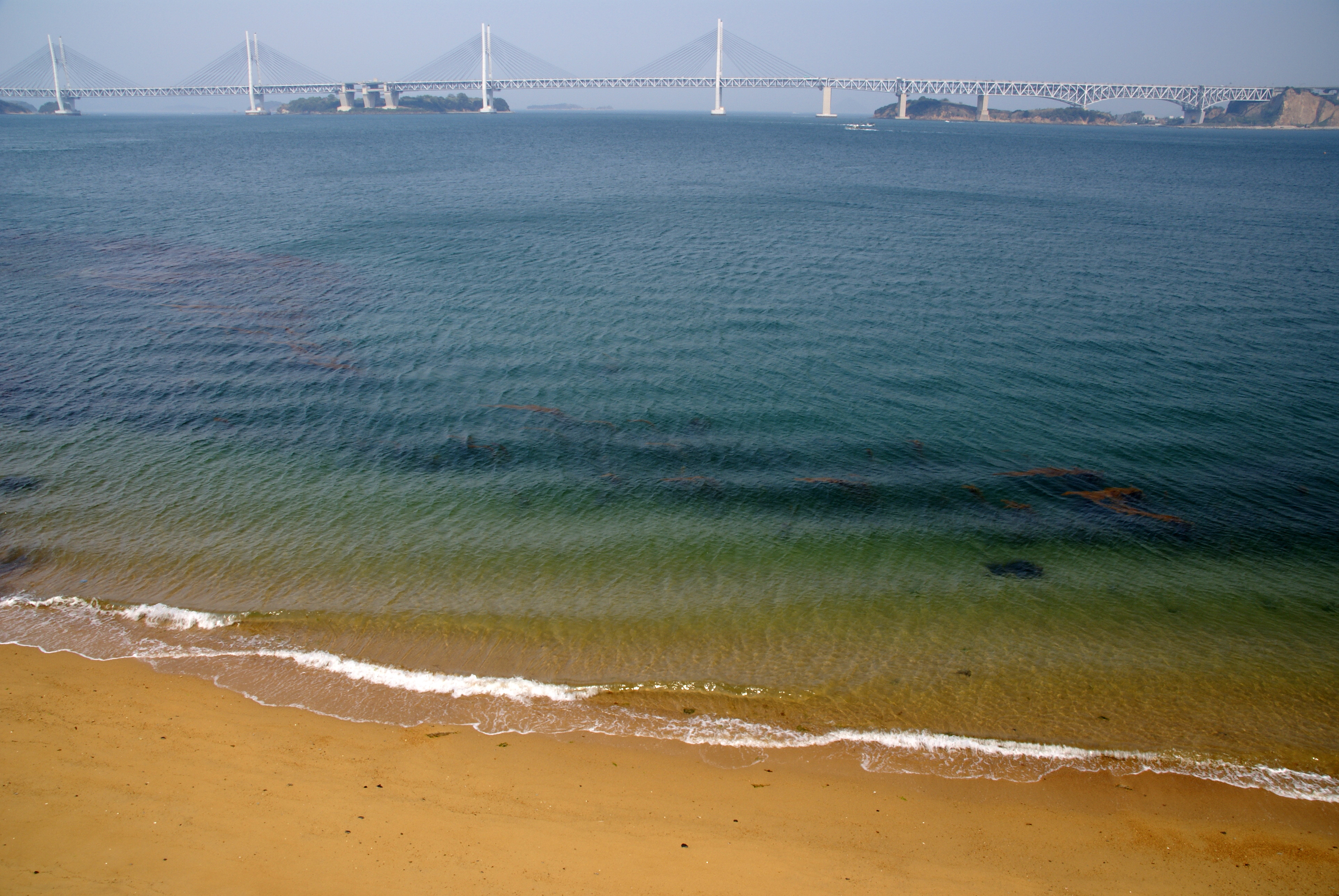 Shinzaike coast, Hon-jima of Shiwaku Islands (Marugame, Kagawa prefecture, Japan)